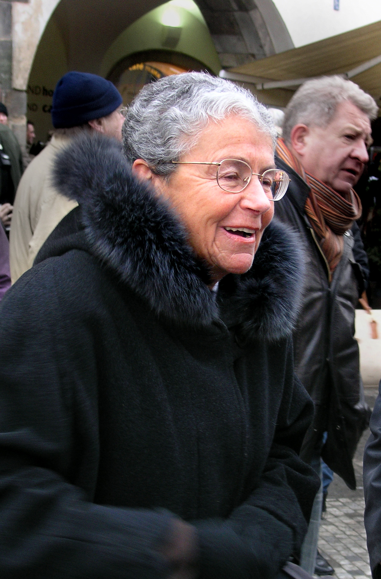 Helena Illnerová, Launch of the International Year of Astronomy in the European Union, Czech Republic